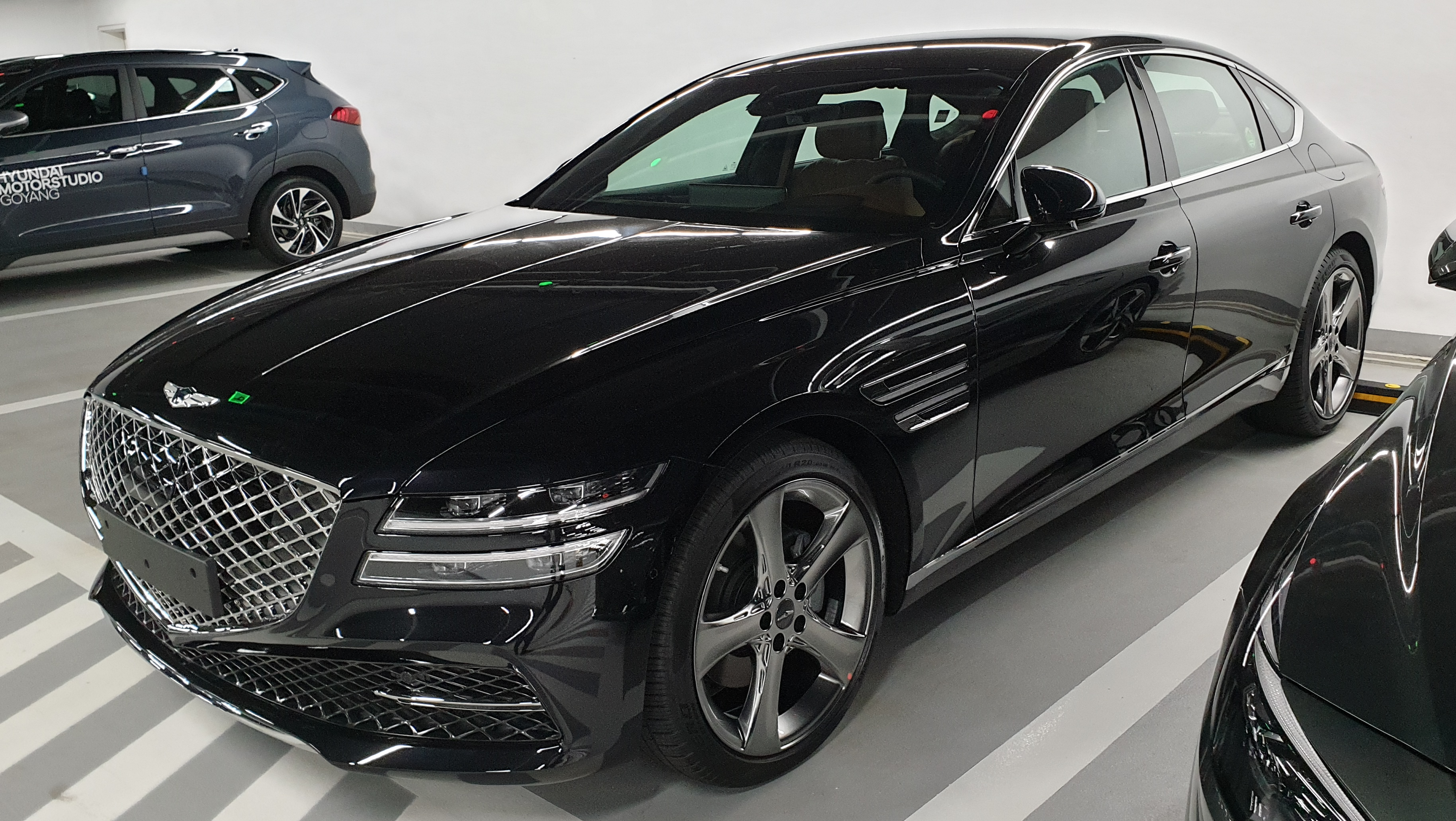 KDM version of 2020 Genesis G80